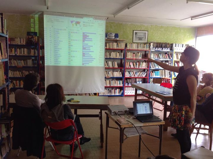 Editing workshop on women biographies held by Wikimedia Italia in Bologna, Italy